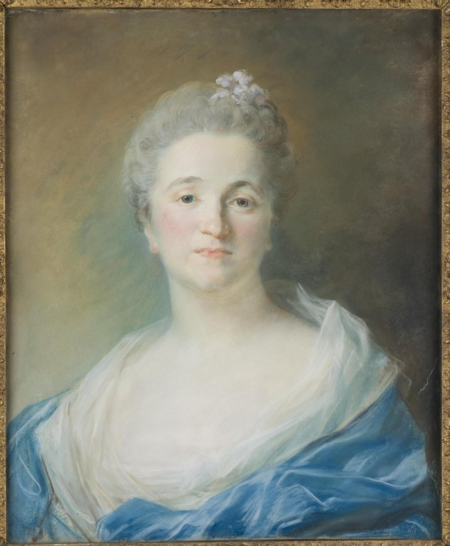 Mme Michel de Grilleau, née Seurrat de Bellevue